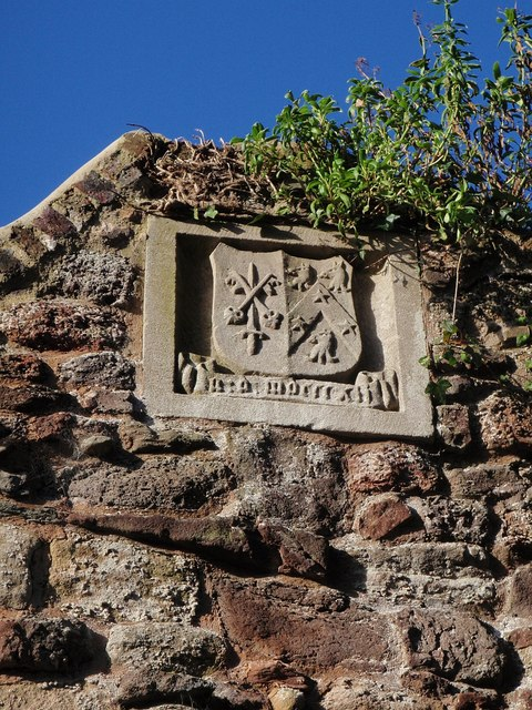 1912 ("mdccccxii", 4th "c" appears to be missing) Coat of arms of Archibald Robertson (1853-1931), Bishop of Exeter 1903–1916, Exeter city wall. This is at the point where the walls start to run behind the grounds of the bishop's palace (the white capping on the left can be seen in 809408). In 1912 Lollards Tower on the Exeter City Wall was rebuilt and several sculpted stone tablets displaying the arms of Bishop Robertson were set into the walls, including one over the arched entrance known as Bishop Carey's Postern. ( Arms: See of Exeter (Gules, a sword erect in pale argent hilted or surmounted by two keys addorsed in saltire of the last) impaling Robertson (Gules, on a chevron between three wolves' heads erased argent, langued azure, three mullets of the field) (Source: Exeter Memories[1]; Arthur Charles Fox-Davies, Armorial families : a directory of gentlemen of coat-armour, Volume 2, p. 154 [2]) The Bishop's arms are also shown in 266554.